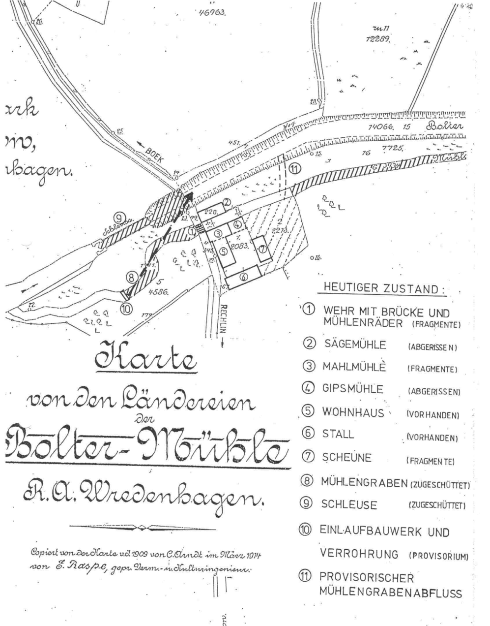 Flurkarte mit den Anlagen der Bolter Mühle um 1905